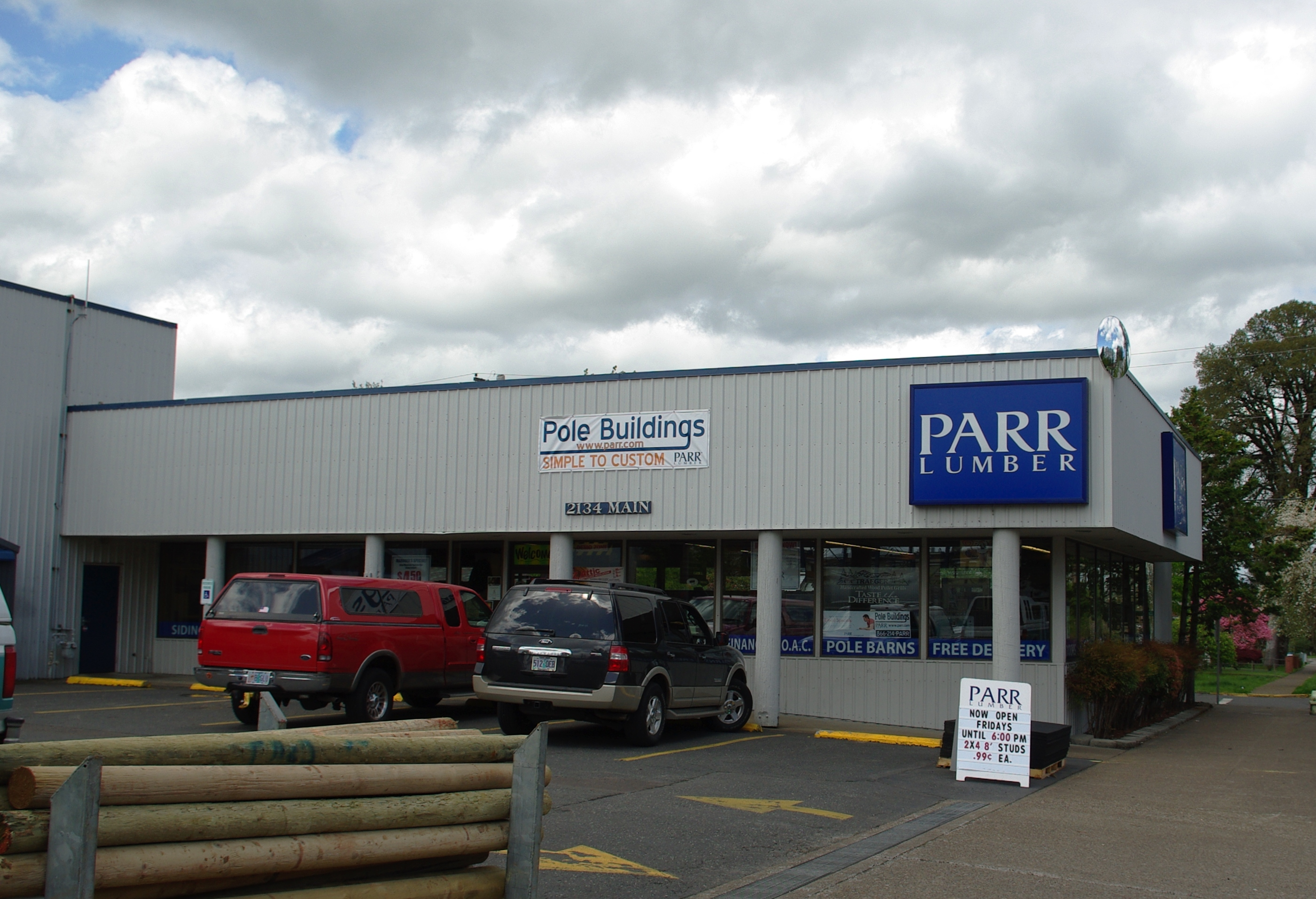 Parr Lumber store in Forest Grove, Oregon.